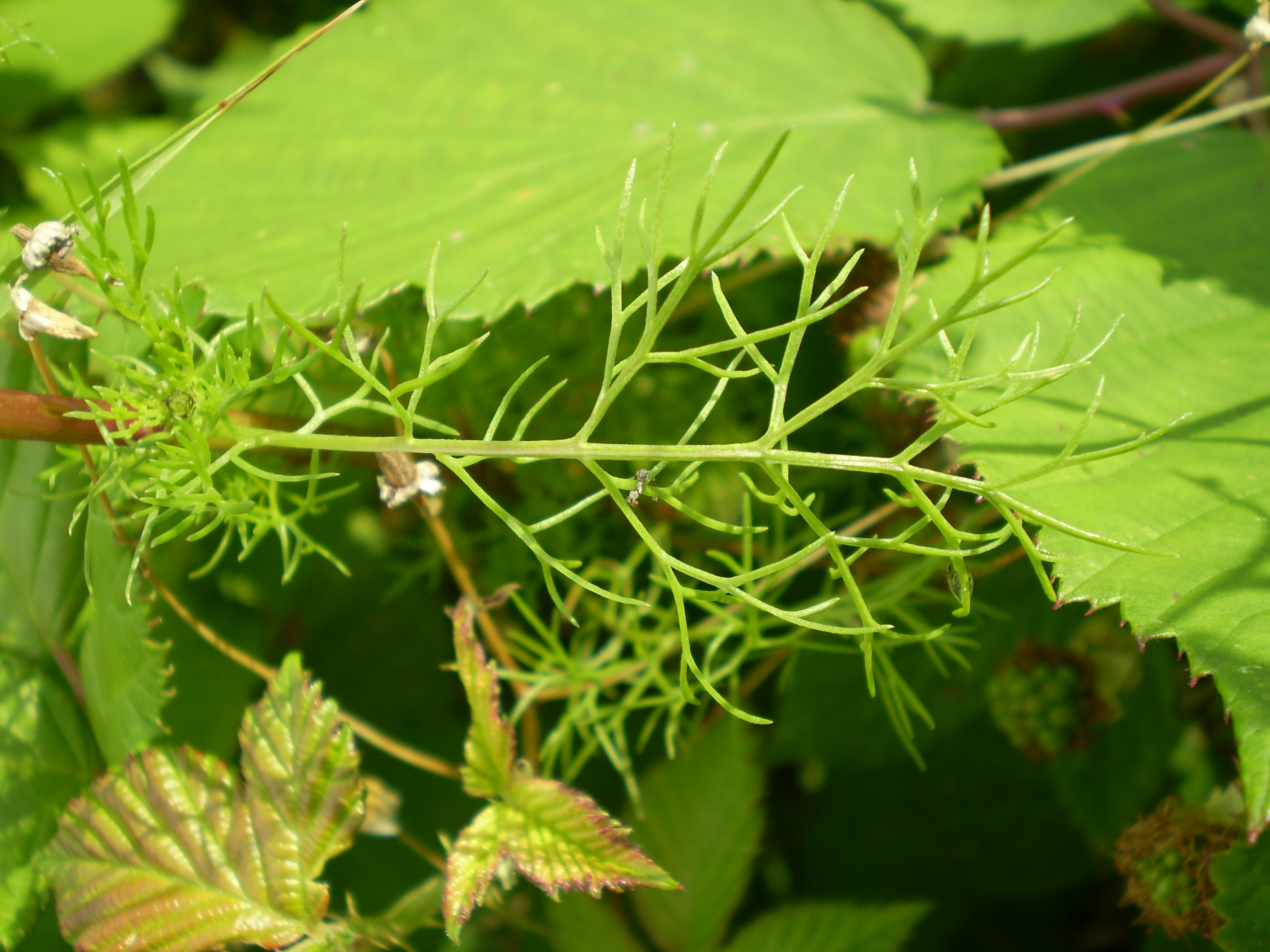 Chamomile, Matricaria recutita